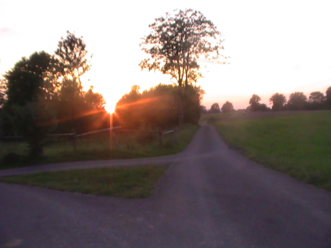 Three roads meeting in Gajówka village.